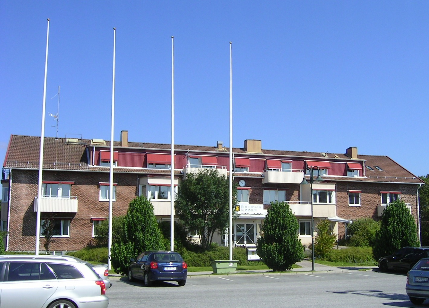 City hall of Bollebygd municipality, Sweden